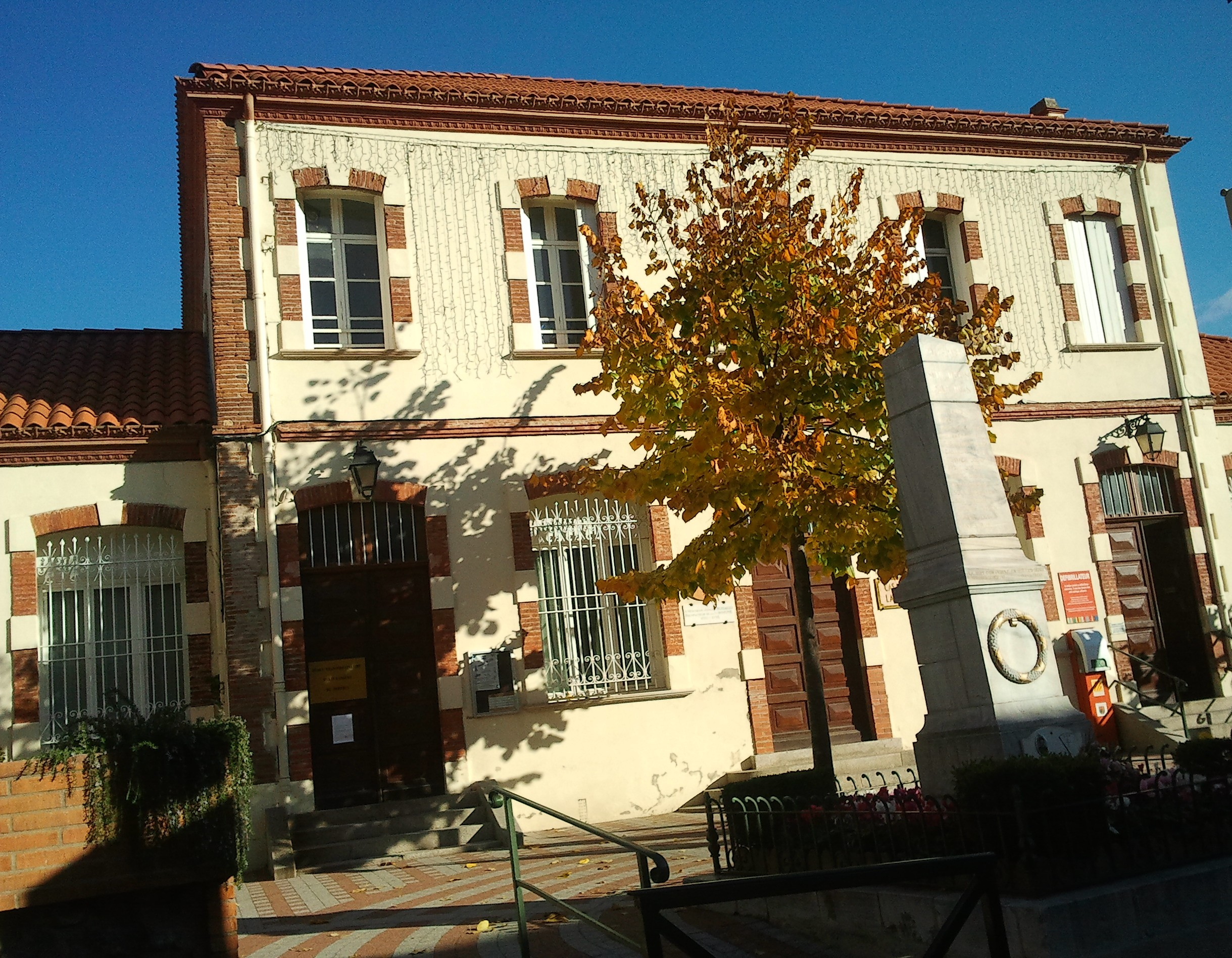 The town hall in Le Perthus